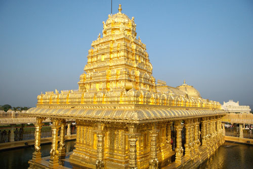 Full view of Vellore Golden temple